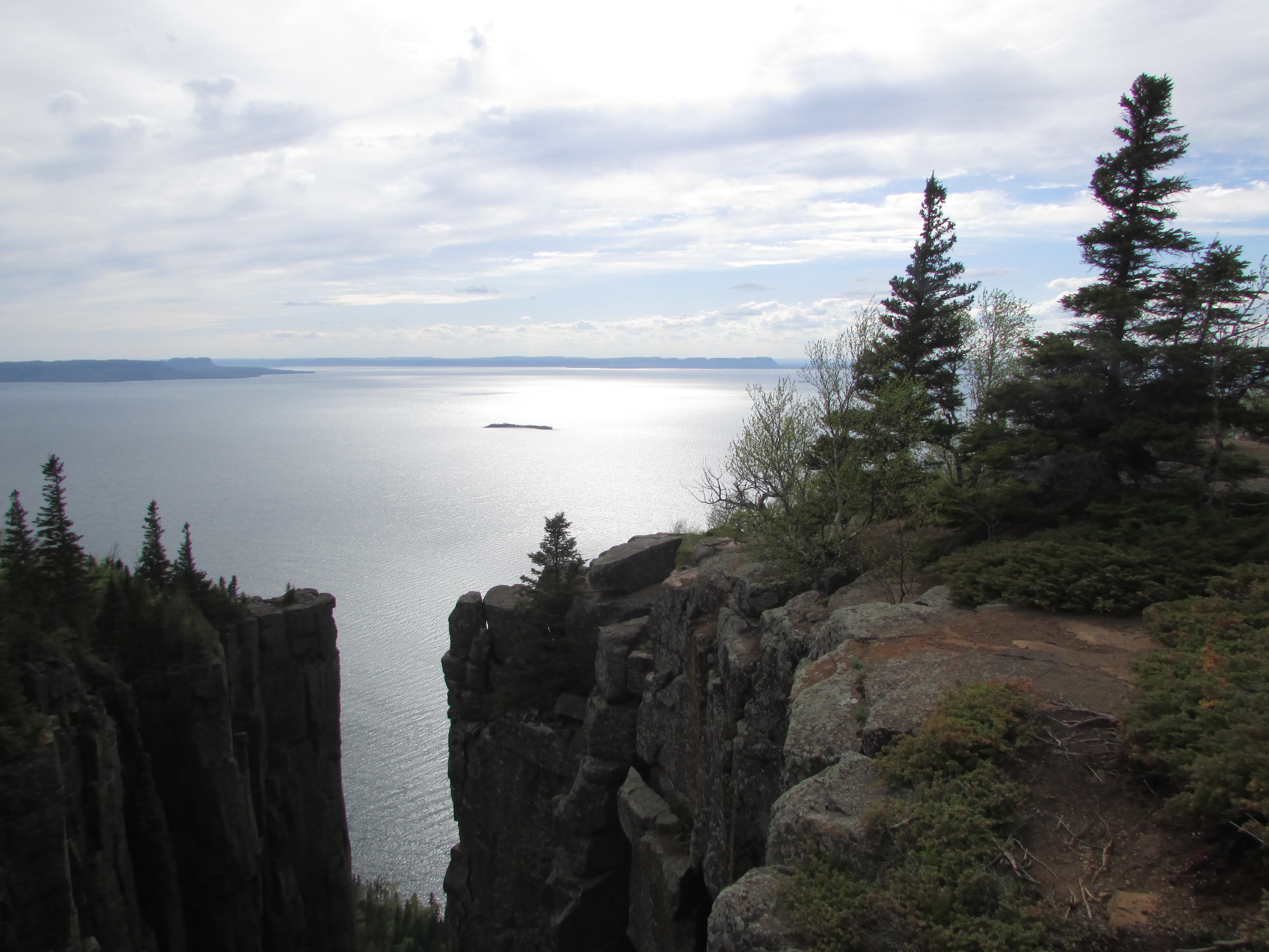 This the top of the giant trail. Here you can get dramatic views and see the deep cliff beside you.